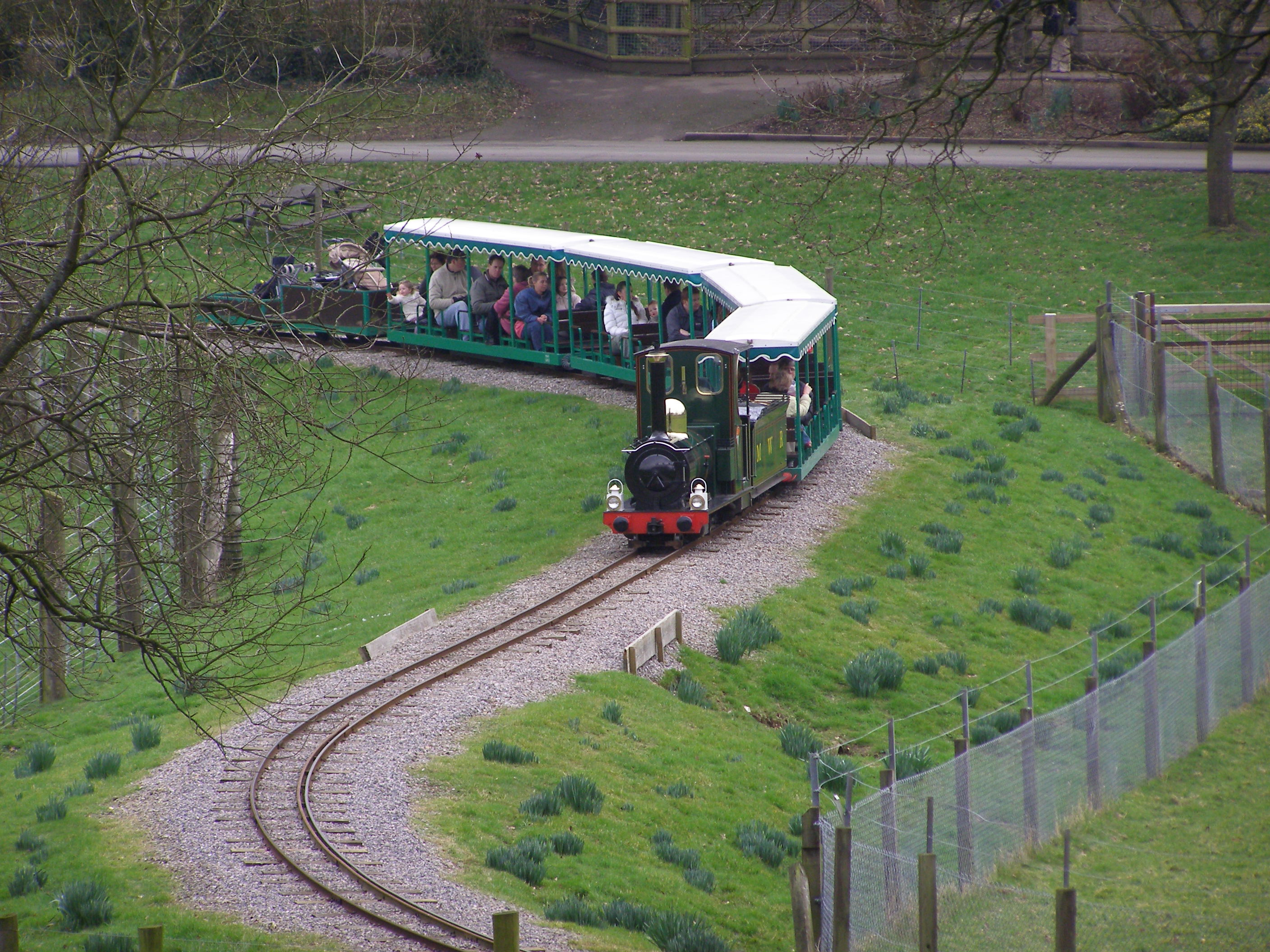 Rail train at Marwell Zoo, England